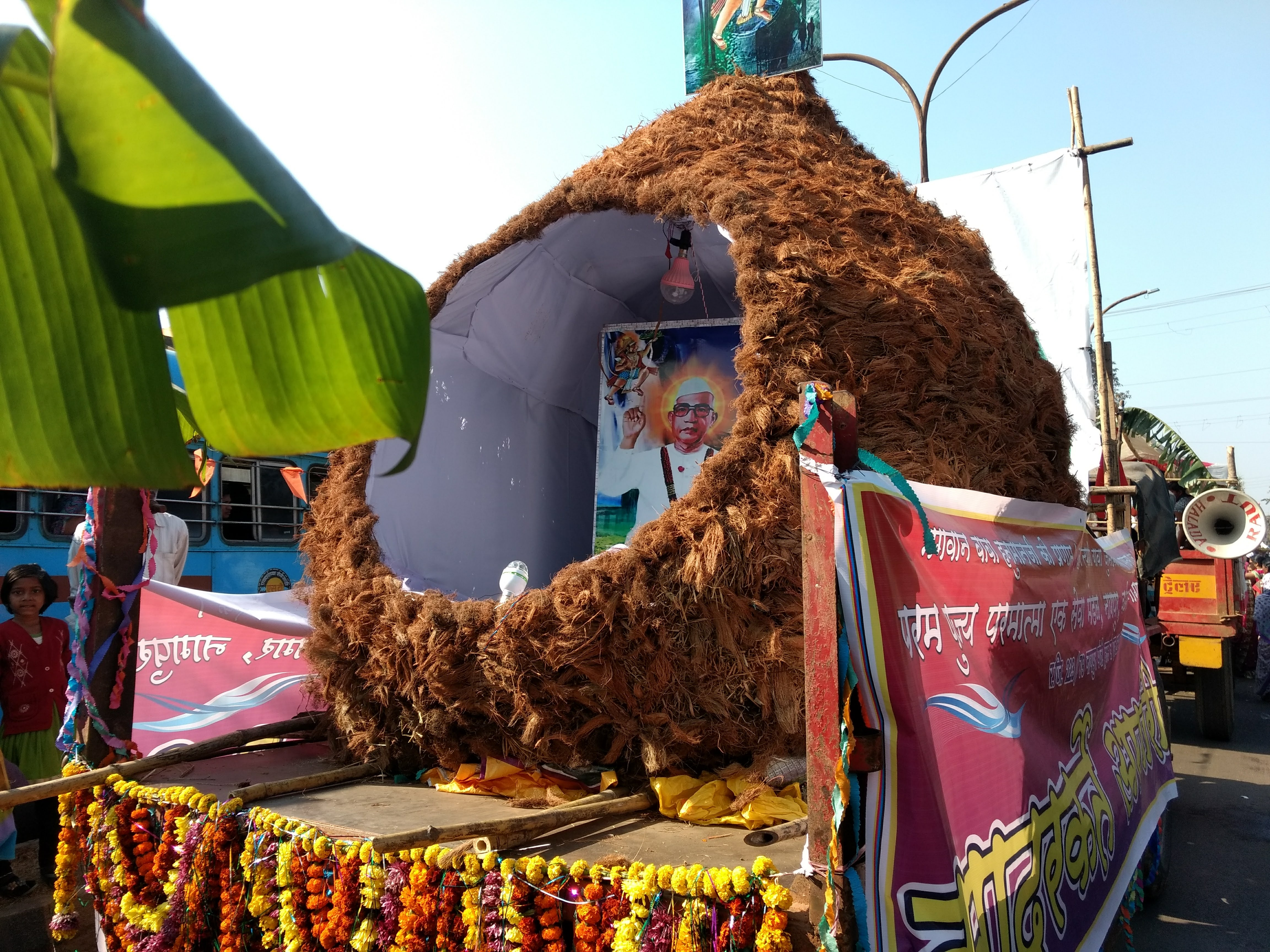 A procession of Parmatma Ek Sevak followers at Brahmapuri, Maharashtra on 30.12.2017.